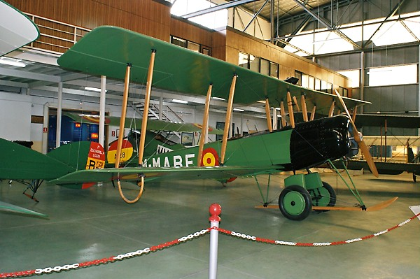 Avro 504K of AE 4/10.